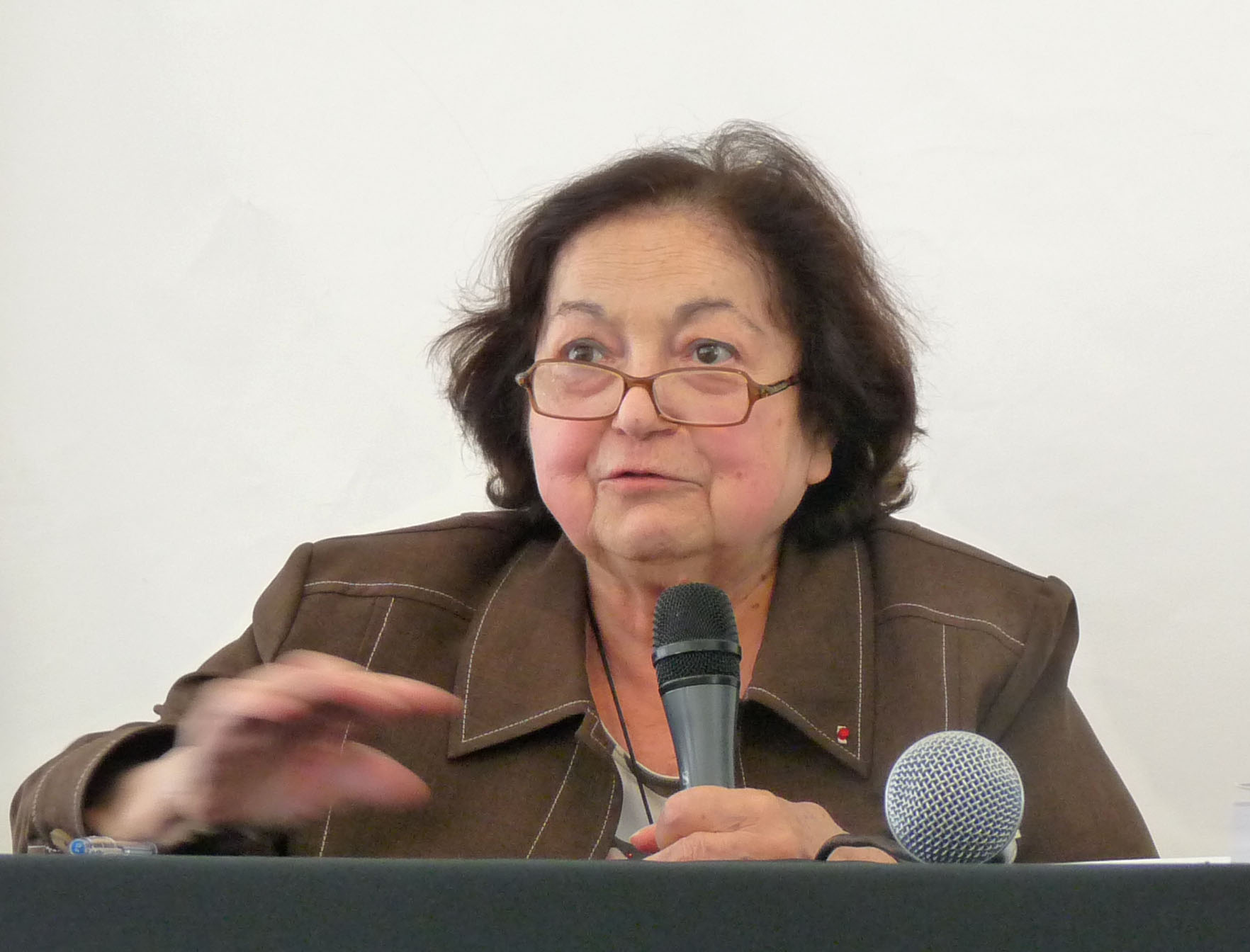 French anthropologist Françoise Héritier in Strasbourg.